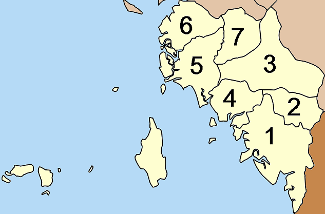 Map of the province Satun with the districts (Amphoe) numbered. Mueang Satun (อำเภอเมืองสตูล) Khuan Don (อำเภอควนโดน) Khuan Kalong (อำเภอควนกาหลง) Tha Phae (อำเภอท่าแพ) La-ngu (อำเภอละงู) Thung Wa (อำเภอทุ่งหว้า) Manang (กิ่งอำเภอมะนัง)